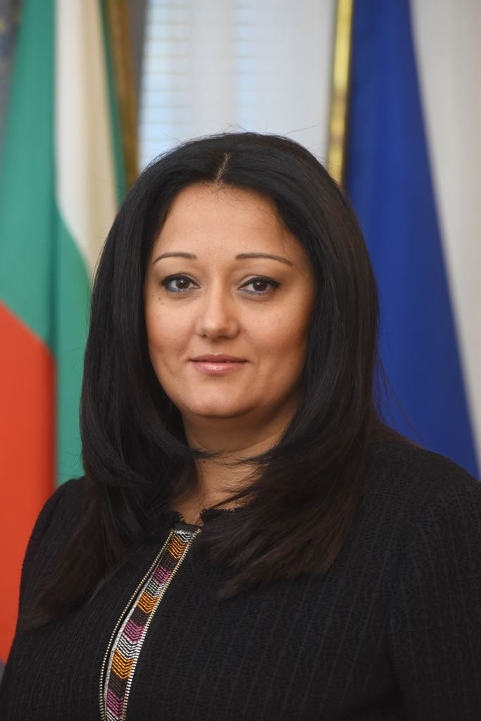 Lilyana Pavlova, Minister for the Bulgarian Presidency of the EU Council 2018